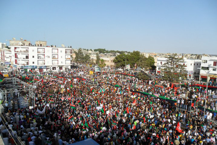 Demonstrations in Al Bayda for support of Tripoli and Az Zawiyah.